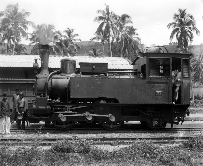 Locomotive on a cogwheel railway in Sumatra .. Cogwheel locomotive in Sumatra